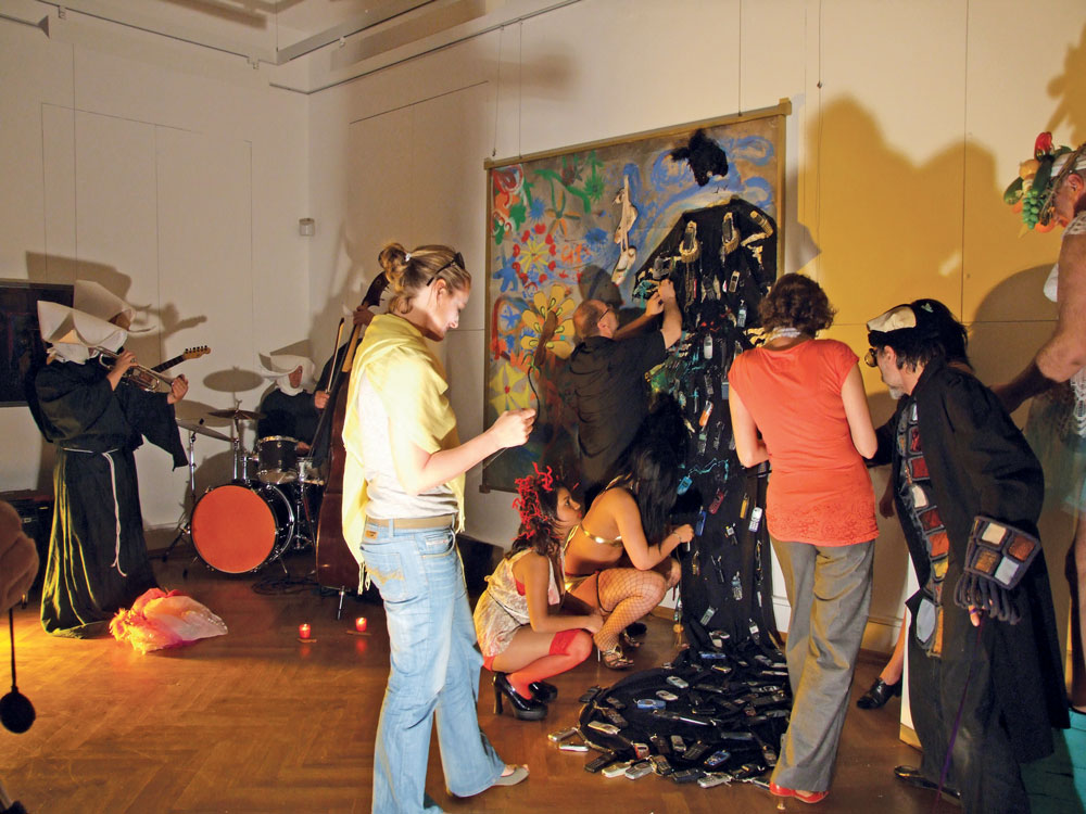 Lubo Kristek: interactive assemblage Requiem for Mobile Telephones (in happening)